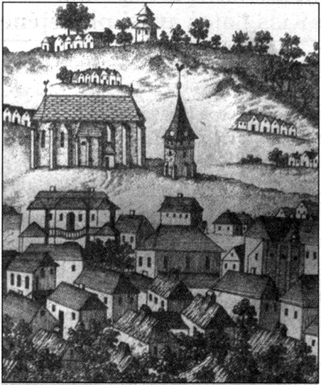 Avas Hill, Miskolc, Hungary (old picture from 1800)